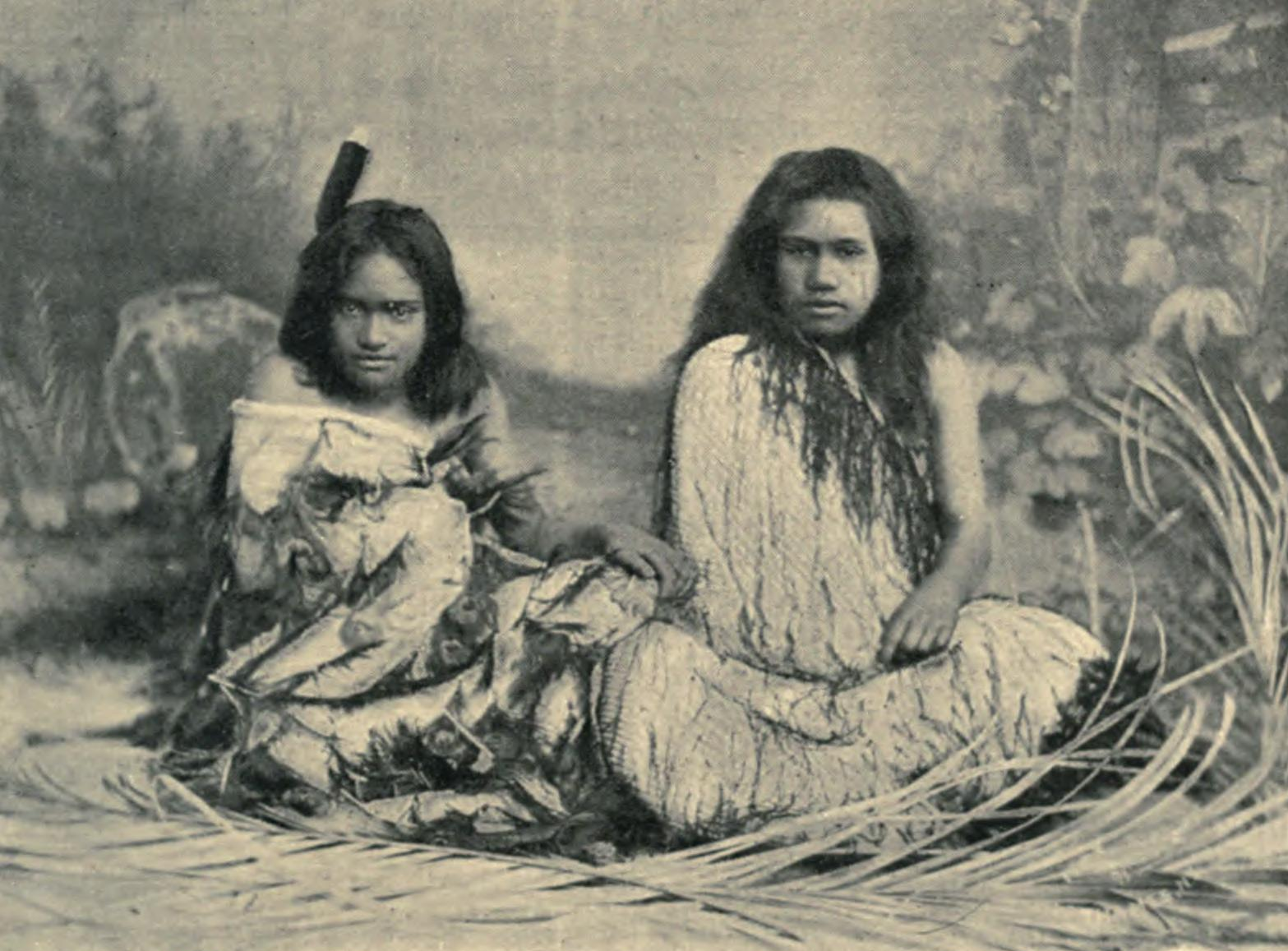 New Zealand Maori Girls.